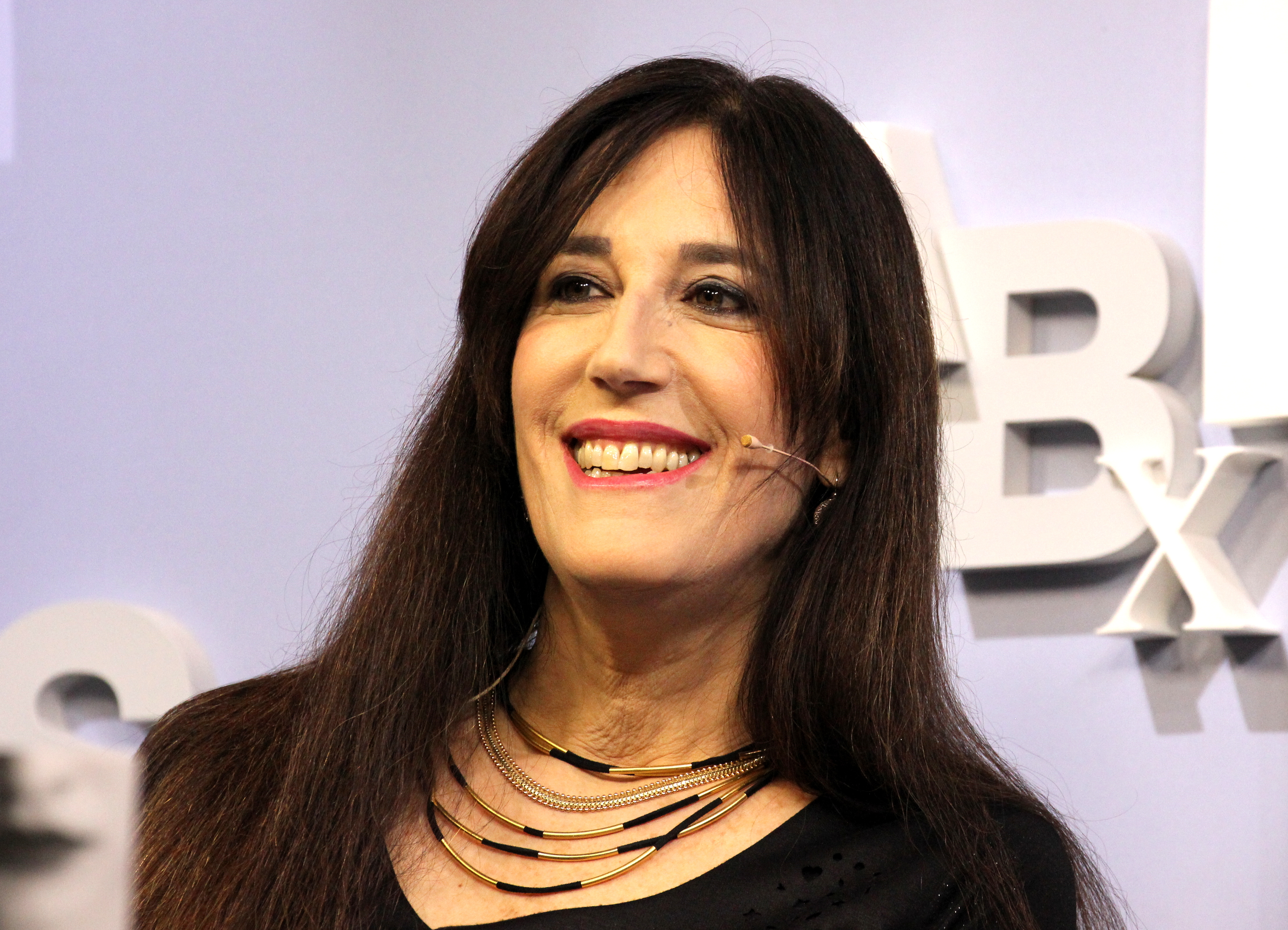 Zeruya Shalev at Frankfurt Book Fair 2015